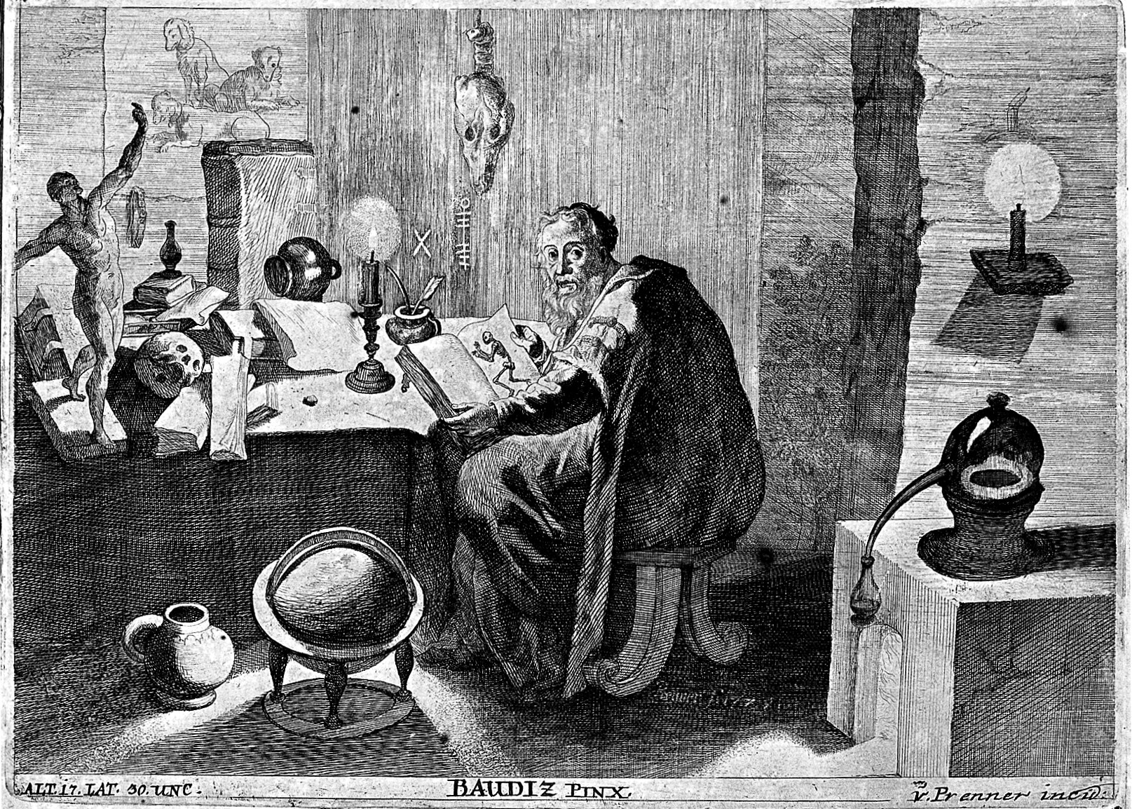 An alchemist at his table, reading a book containing an image of skeleton. Etching by J.J. von Prenner, 1779, after H.C. von Bauditz. Iconographic Collections Keywords: Hinrich Conrad Bauditz; Johann Joseph von Prenner; David Ryckaert